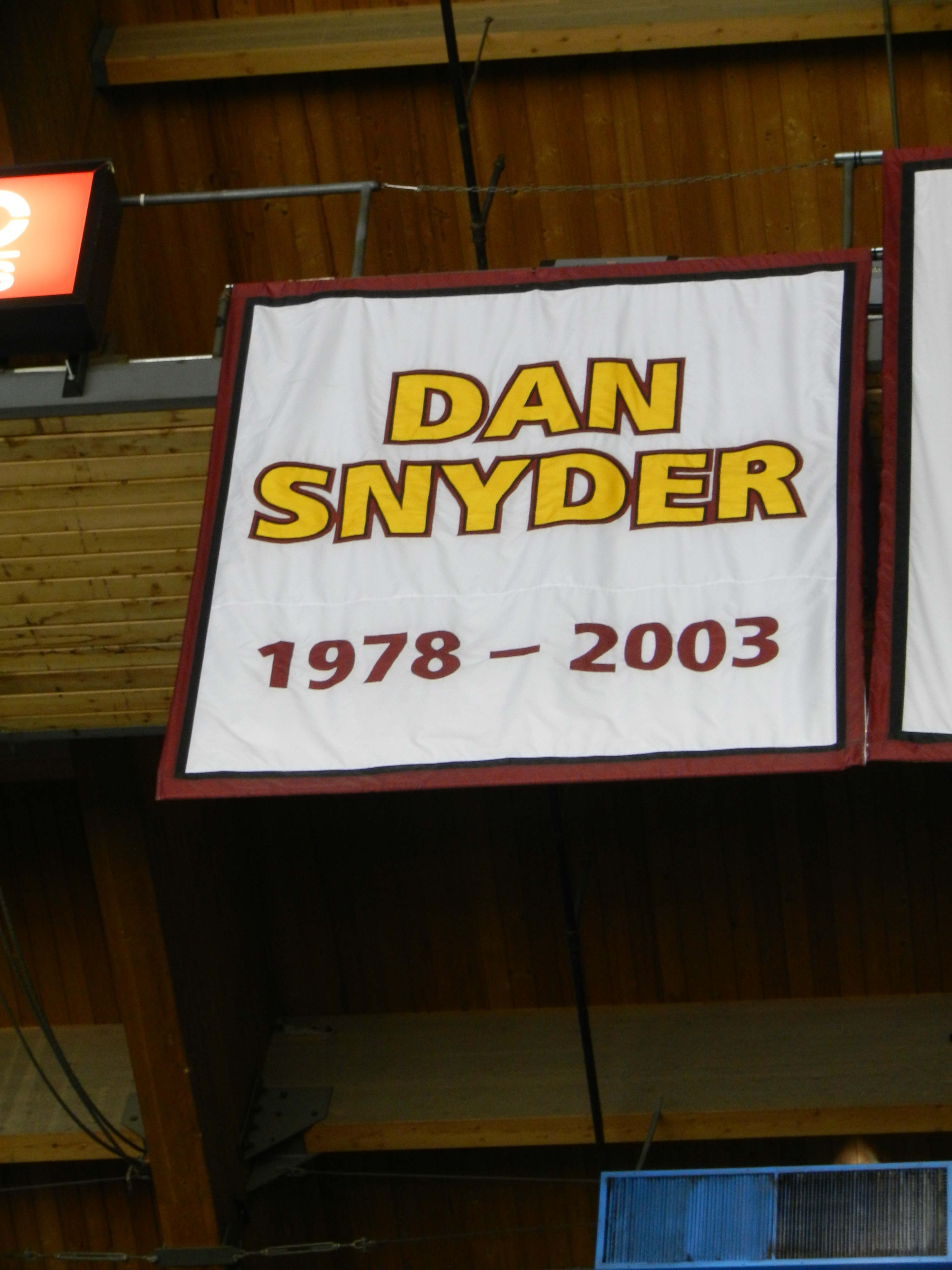 Banner honoring Dan Snyder hanging in the Allstate arena